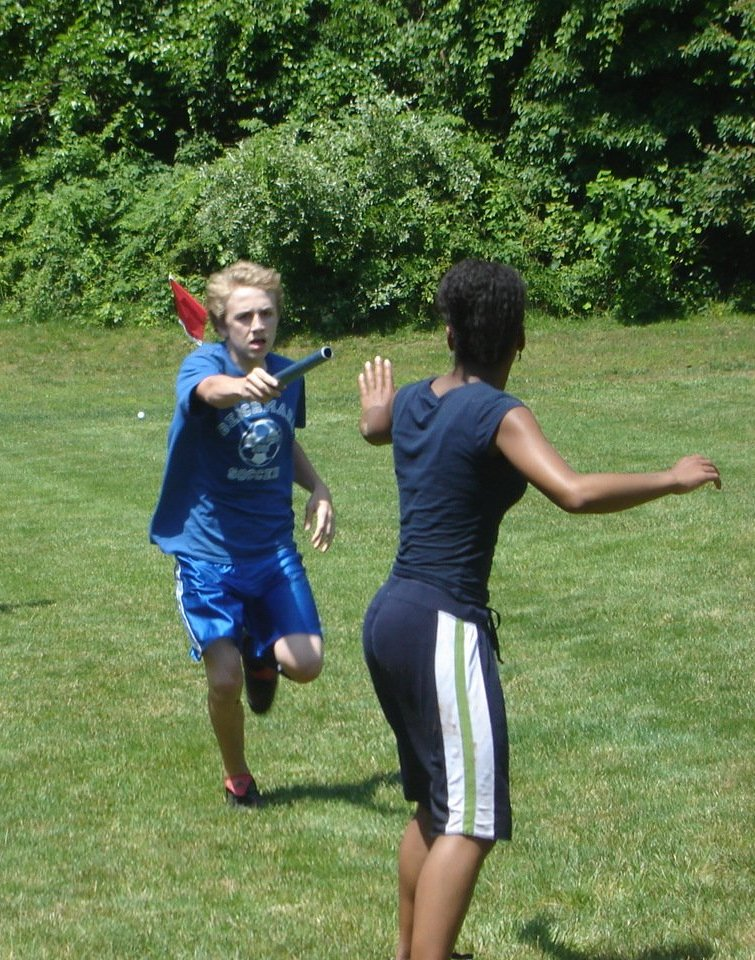 Two runners prepare to pass a baton during a relay race.